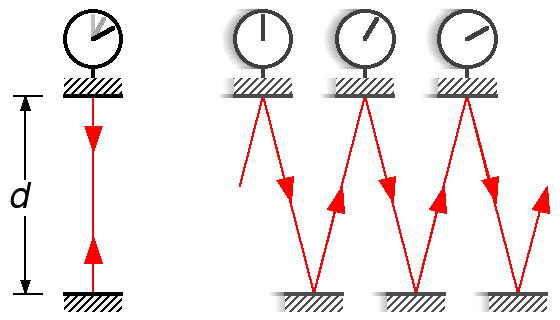 Function of a light clock